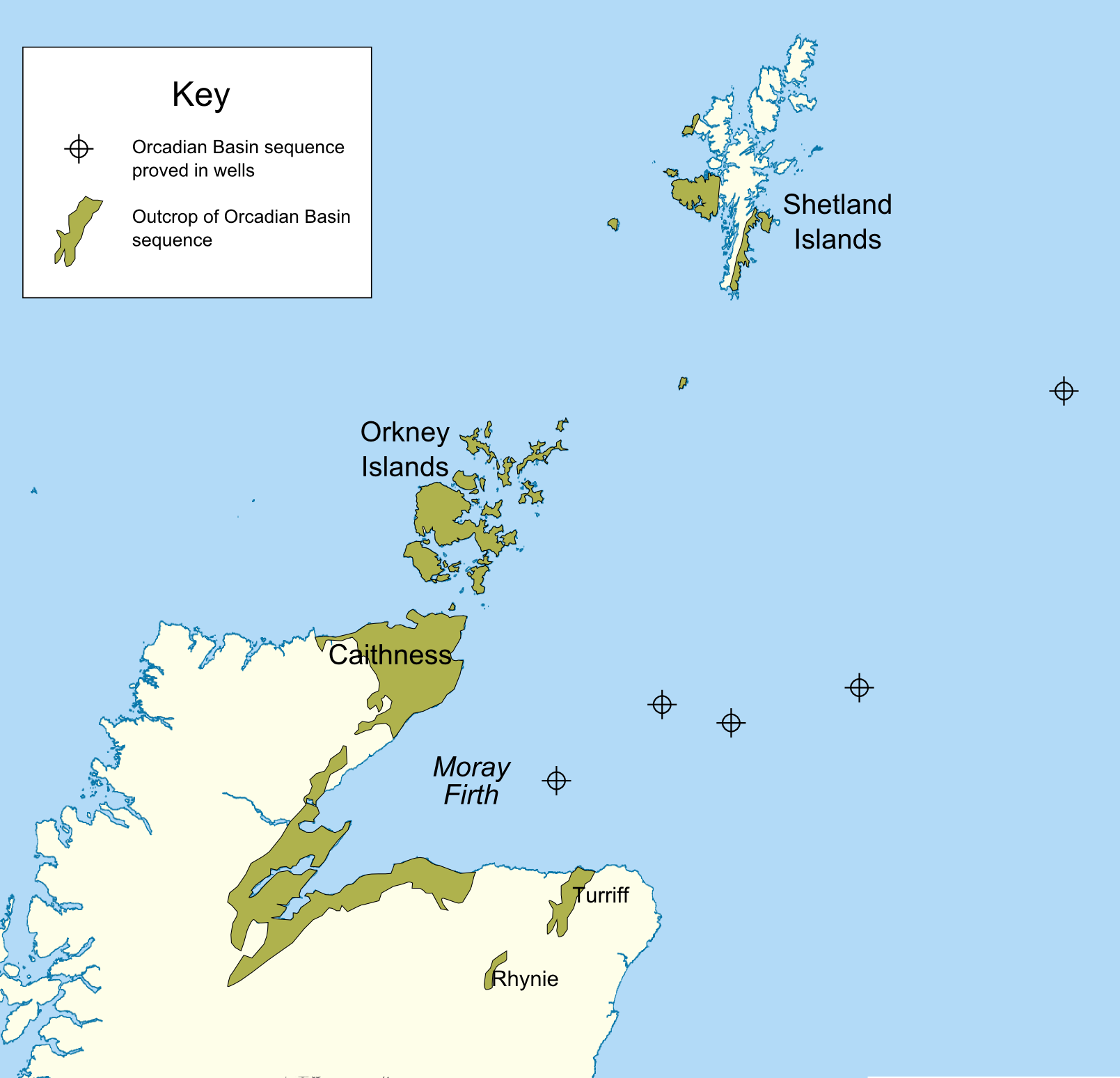 The extent of the Orcadian Basin in terms of outcrop and occurrence in offshore hydrocarbon exploration wells - modified after Norton et al. 1987 and Duncan & Buxton 1995